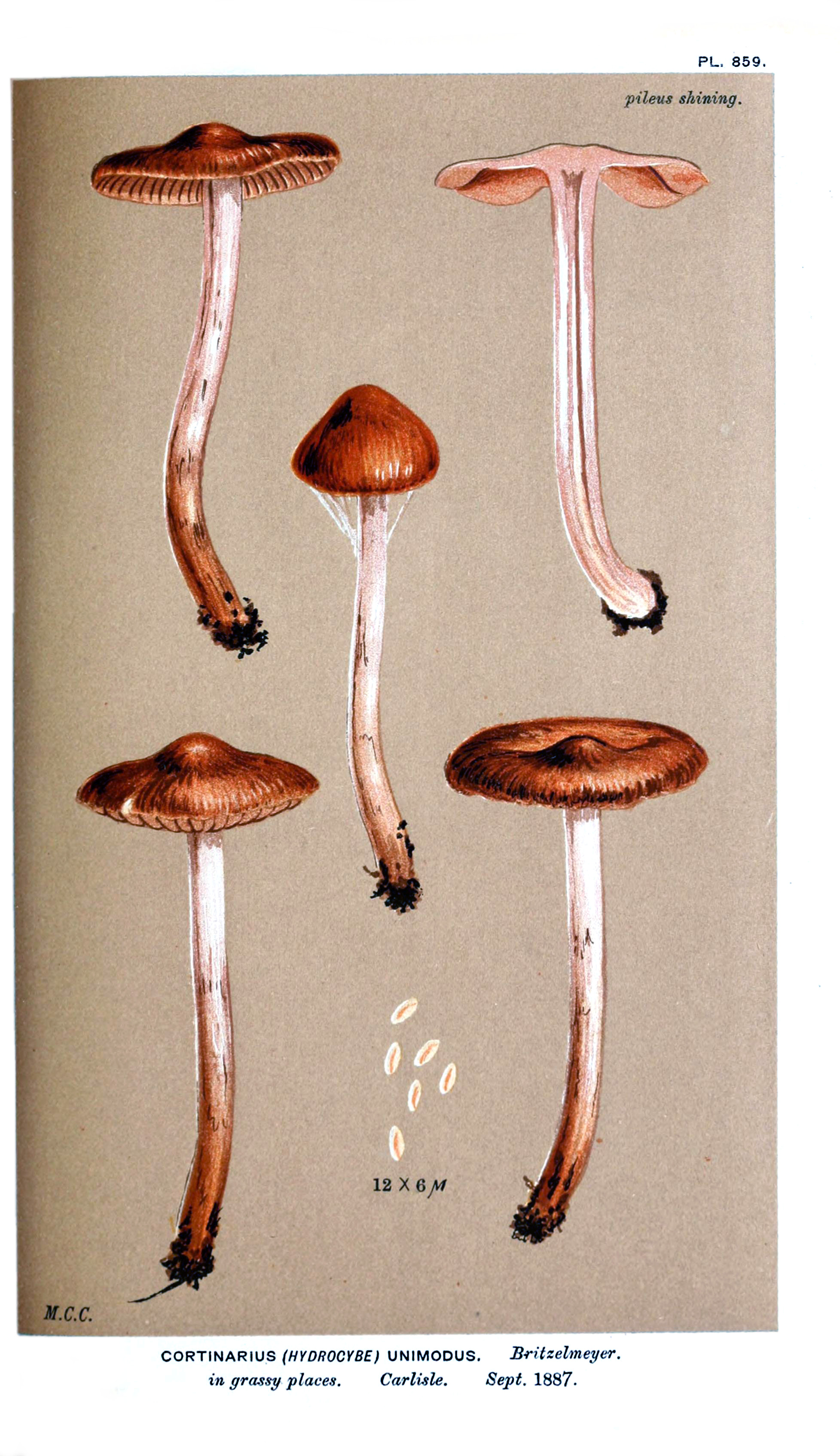 Illustrations of British Fungi (Hymenomycetes) Vol VI, to serve as an atlas to the "Handbook of British Fungi". by Mordecai Cubitt Cooke; Published 1888 by Williams and Norgate in London. (English). Plate 859 Fig. 1 CORTINARIUS (HYDROCYBE) UNIMODUS. Britzelmeyer. in grassy places. Carlisle. Sept. 1887. (According to Index Fungorum is C. unimodus sensu Cooke synonym to Cortinarius casimiri)